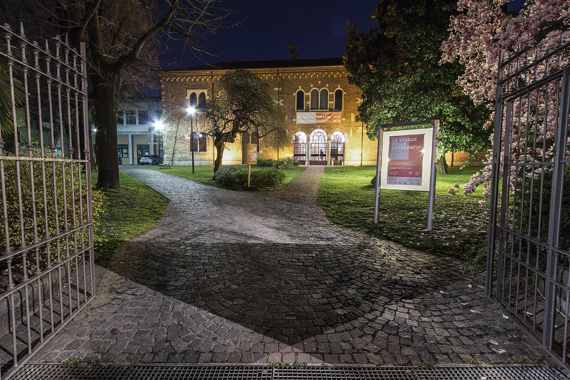 PALAZZO LEONE da PEREGO - Legnano This is a photo of a monument which is part of cultural heritage of Italy.